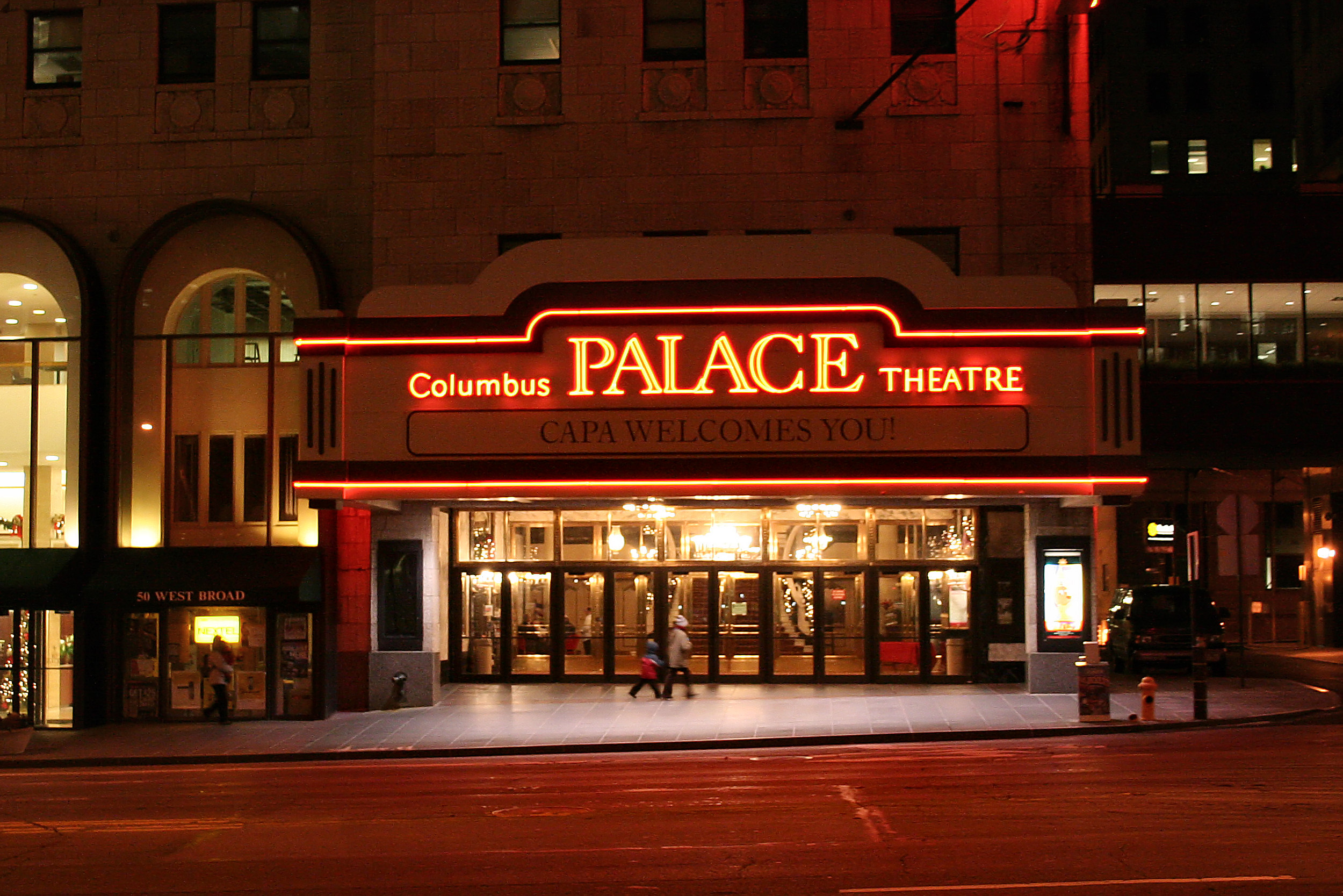 Palace Theatre at the base of LeVeque Tower in Columbus, Ohio. Photo shot by Derek Jensen (Tysto), 2005-November-29